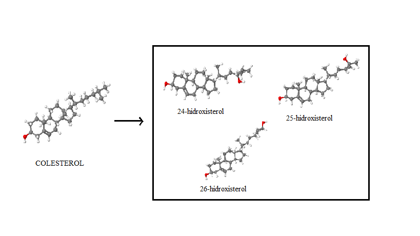 Dertivats del colesterol